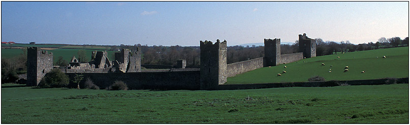 Location: Kells Priory, Ireland Author: Dirk Frantzen